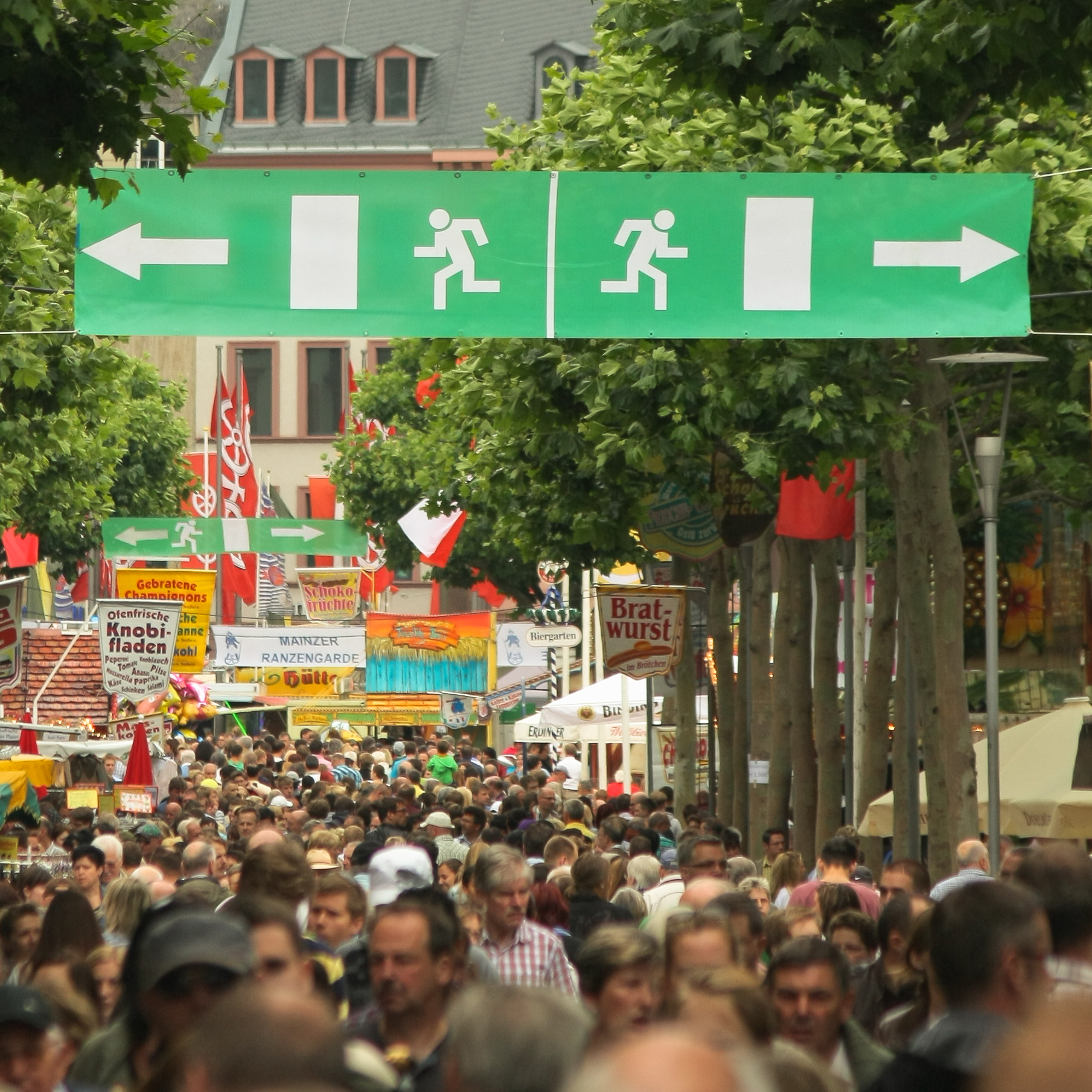 Banner signposting the emergency exits at the Johannisnacht 2012 in Mainz.